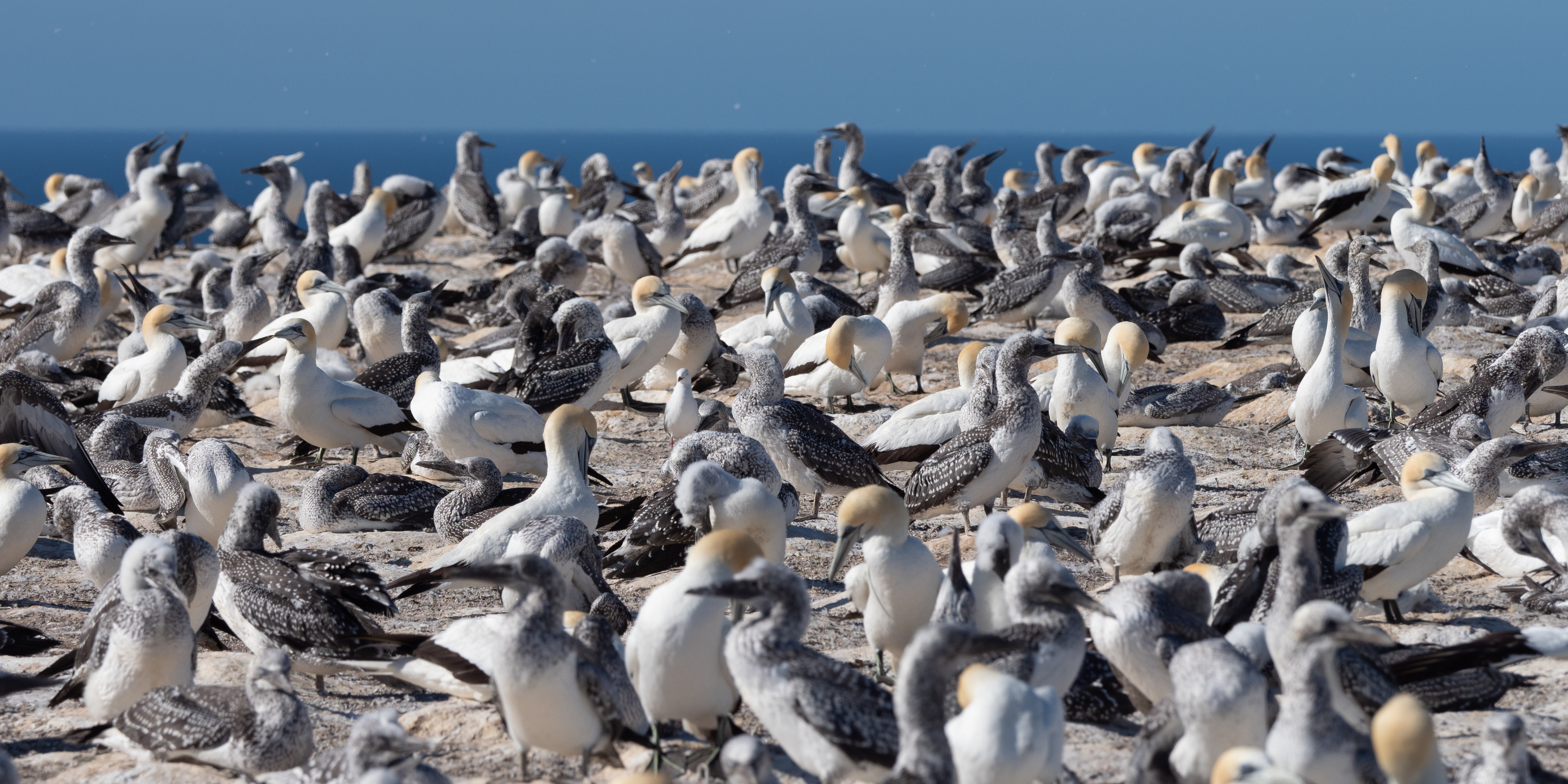 Gannet colony in Napier, New Zealand, February 2019